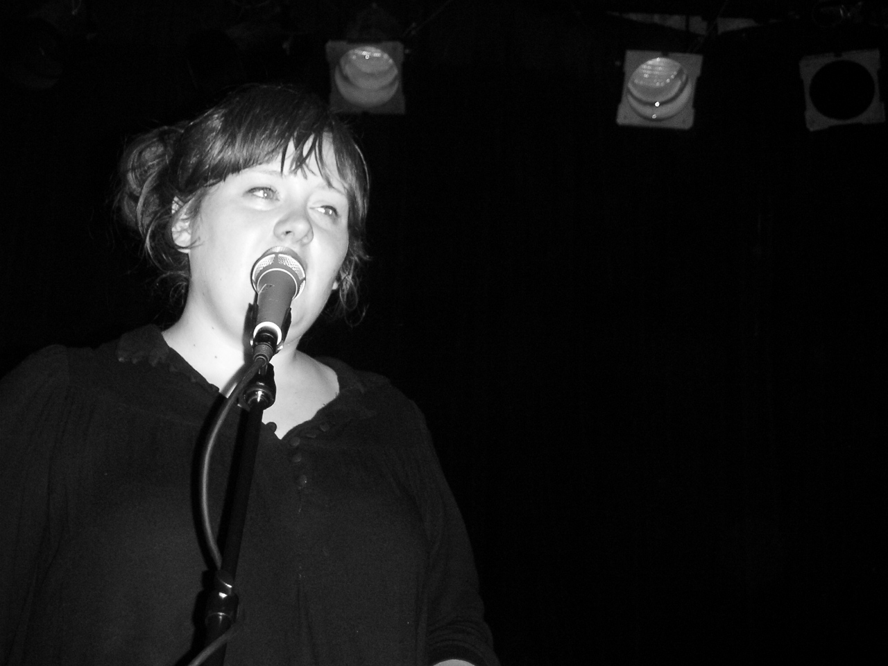 Adele